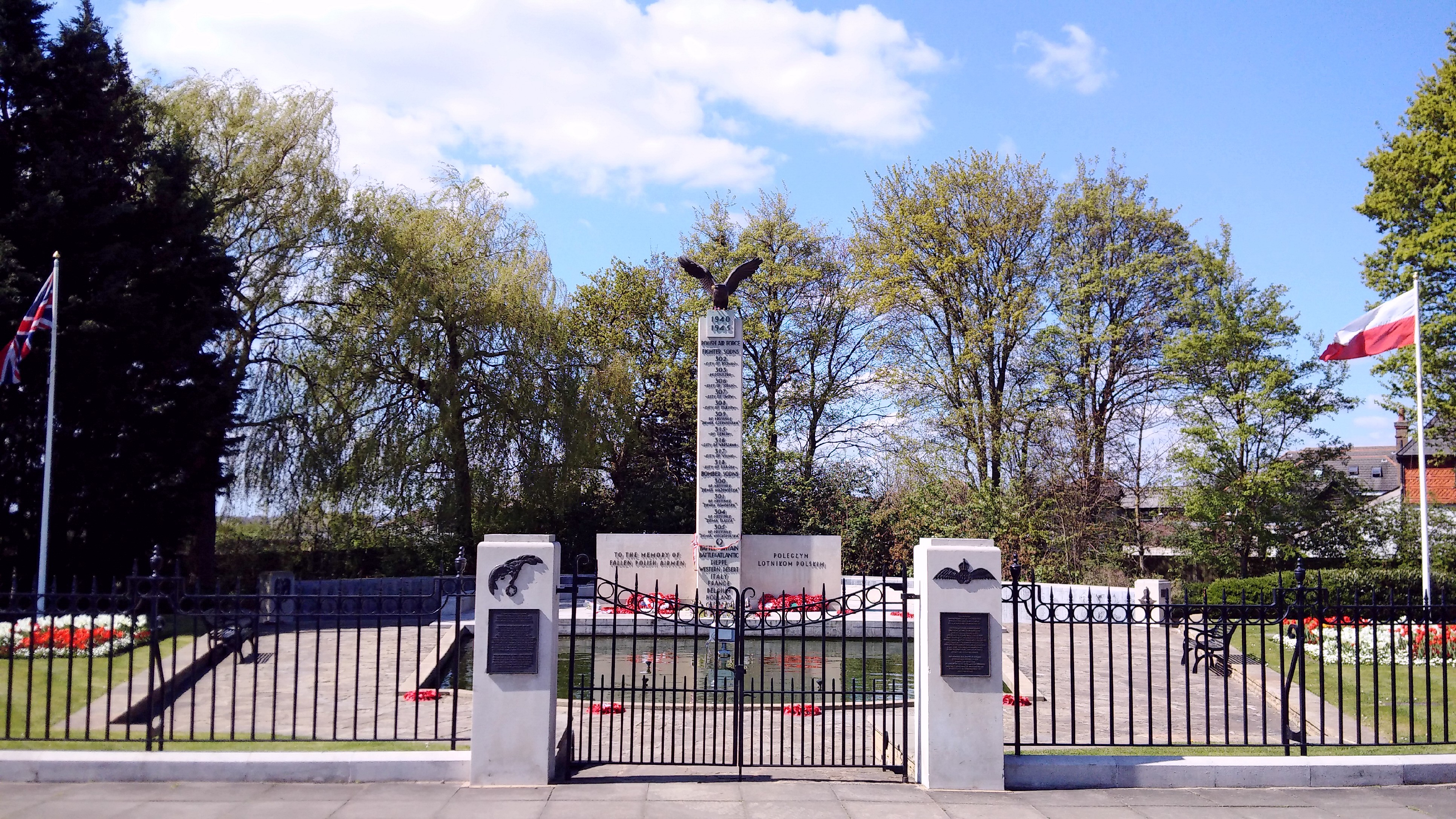 Polish War Memorial compound in London